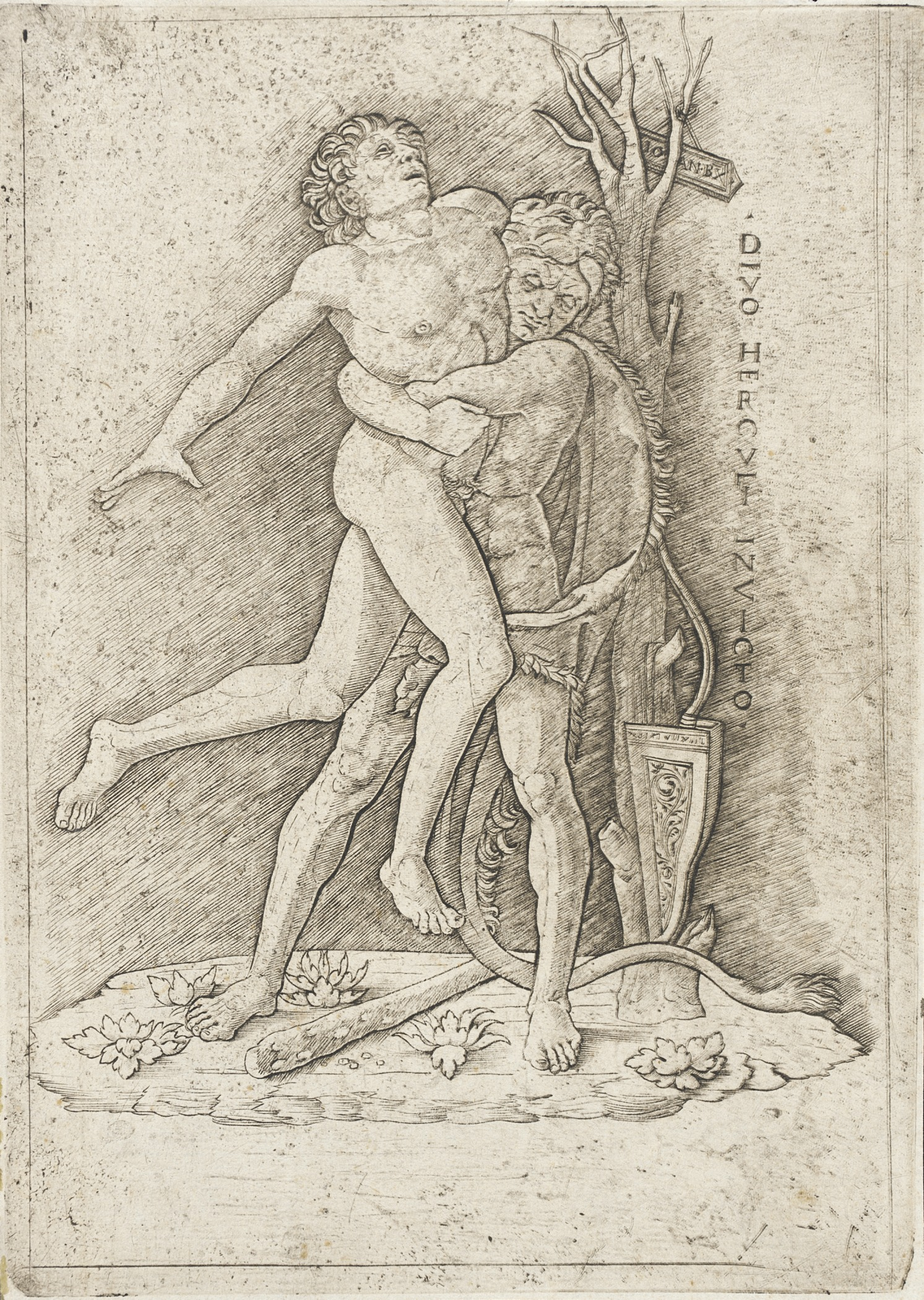 Italy, after 1507 Prints; engravings Engraving Museum Purchase with County Funds (57.52.6) Prints and Drawings